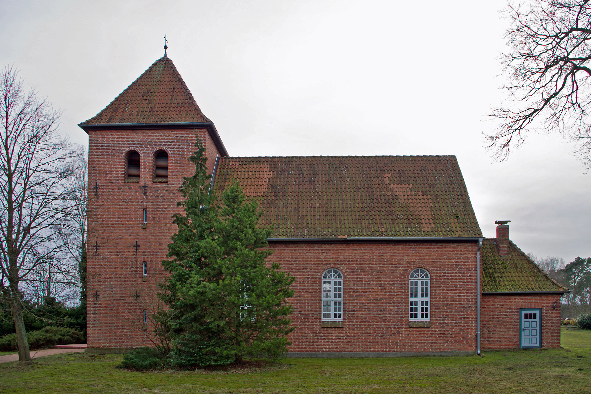 Church of the small village Wibbese (district Lüchow-Dannenberg, northern Germany).